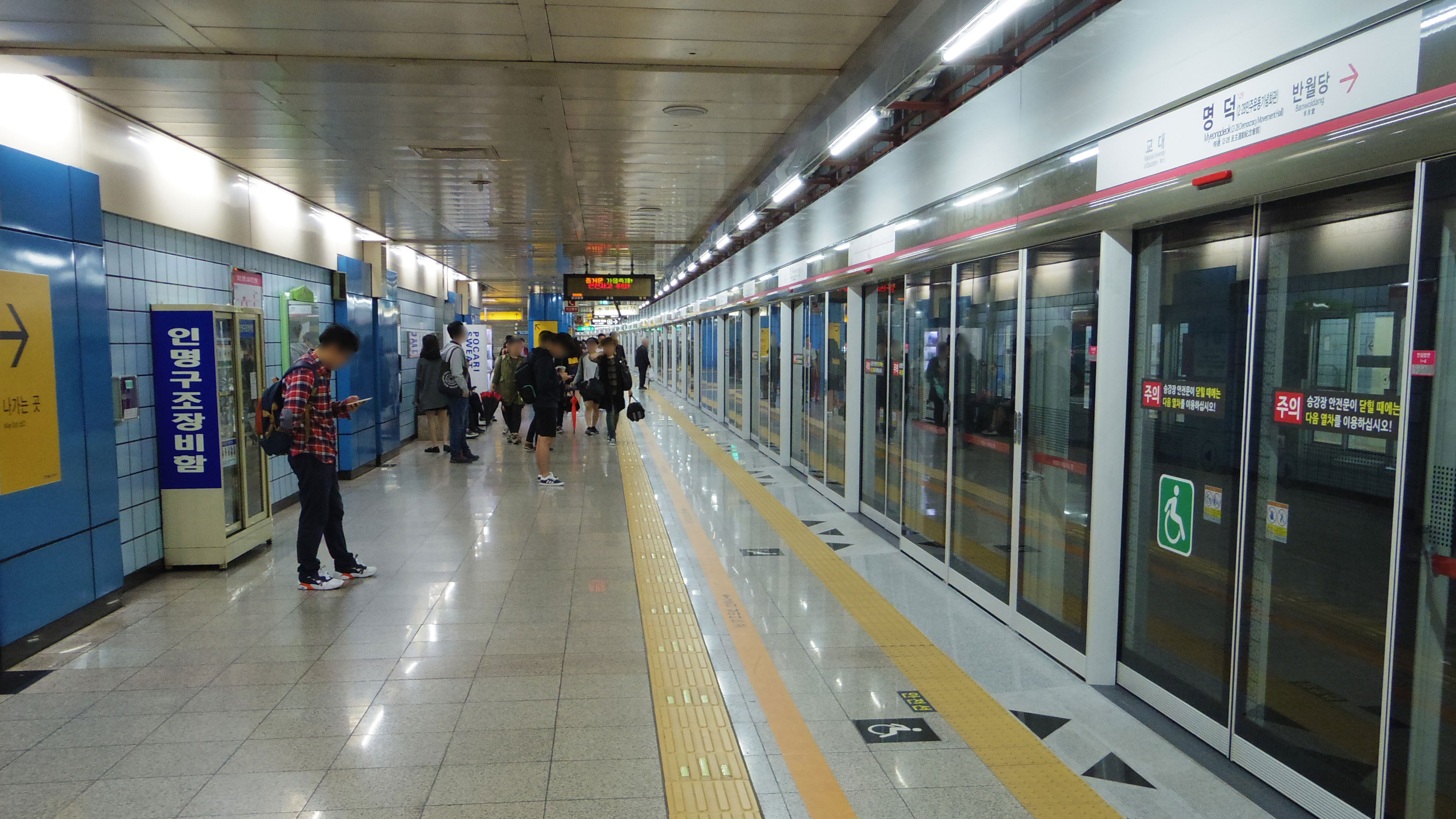 The platform of Myeongdeok Station on the Daegu Metro Line 1, for Jungang-ro, Ansim